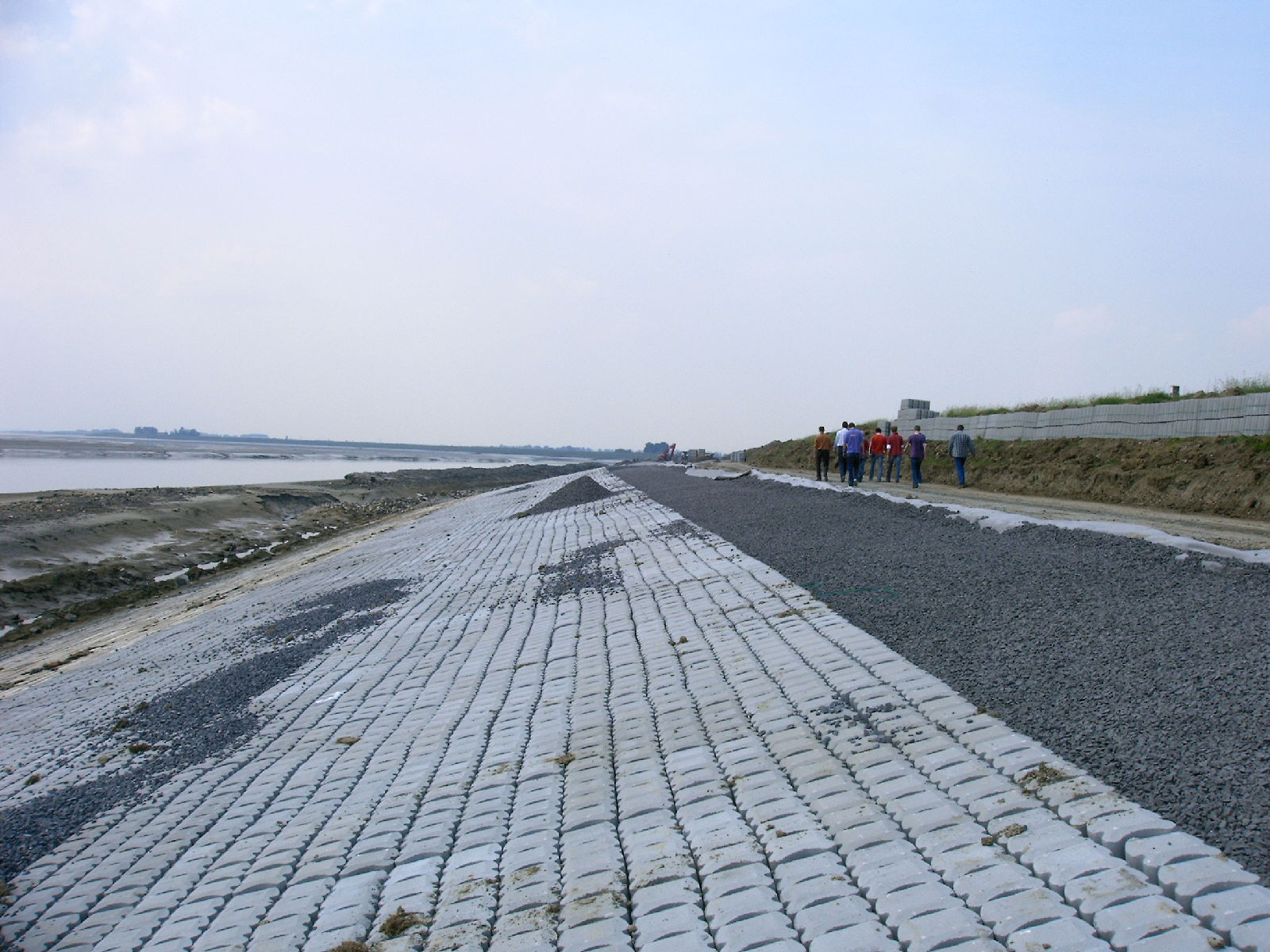 Revetment construction with Hydroblock near Baaraland, Westerschelde, Netherlands